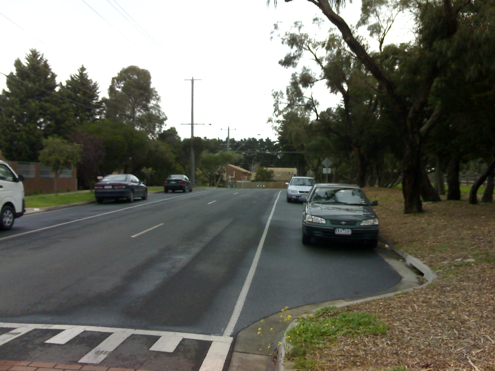 Coombs ave , Oakleigh South, Victoria, Australia.